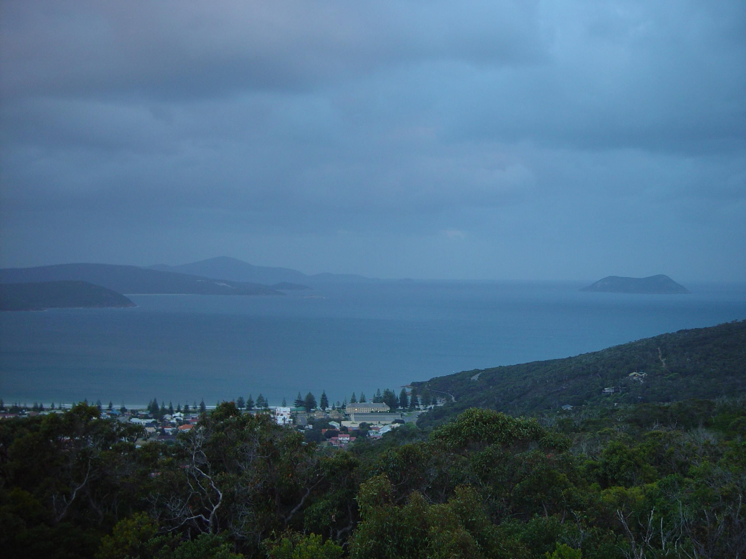 Image title: Islands and headlands fading into the drizzle middleton beach Image from Public domain images website